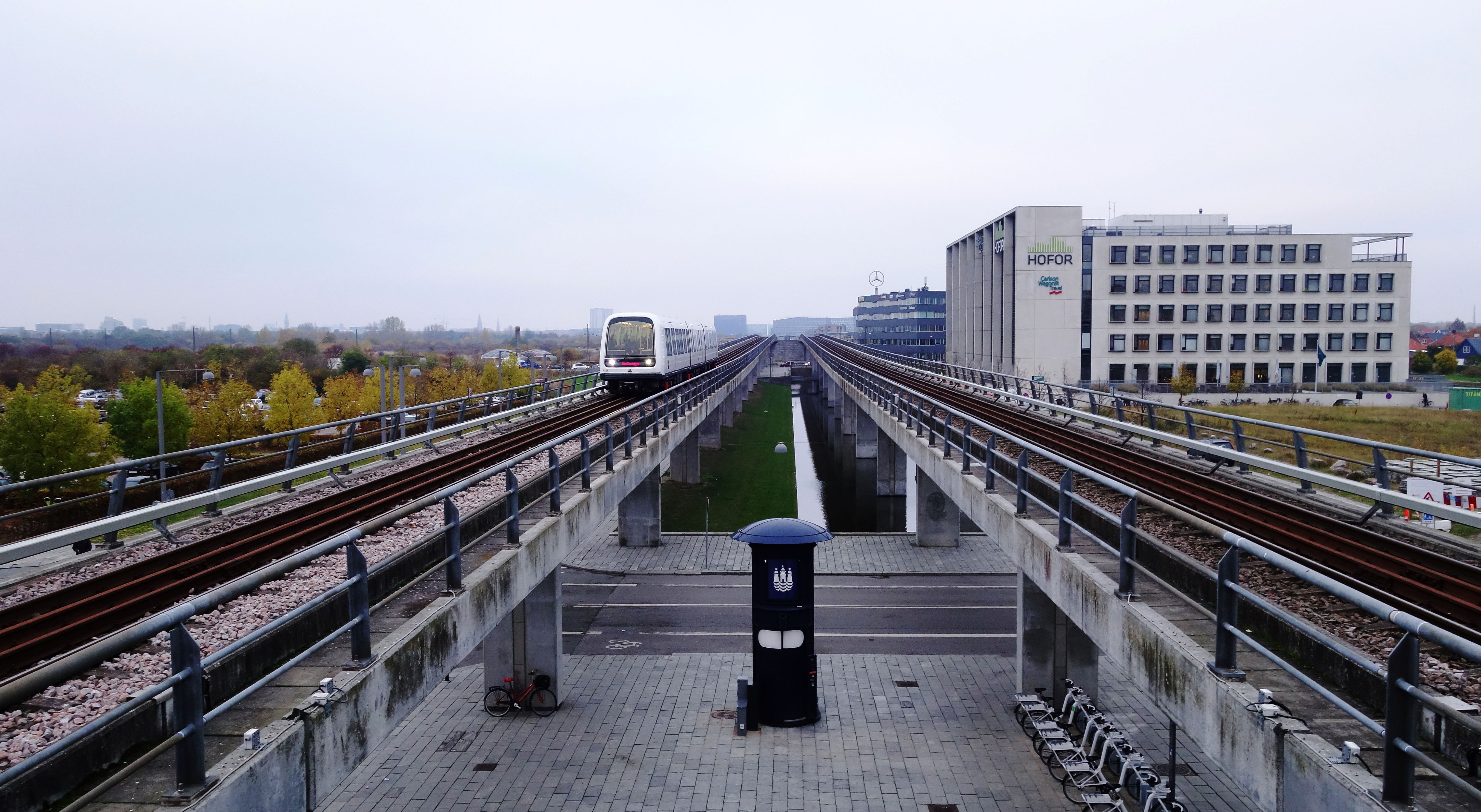 Copenhagen Metro at Bella Center Station